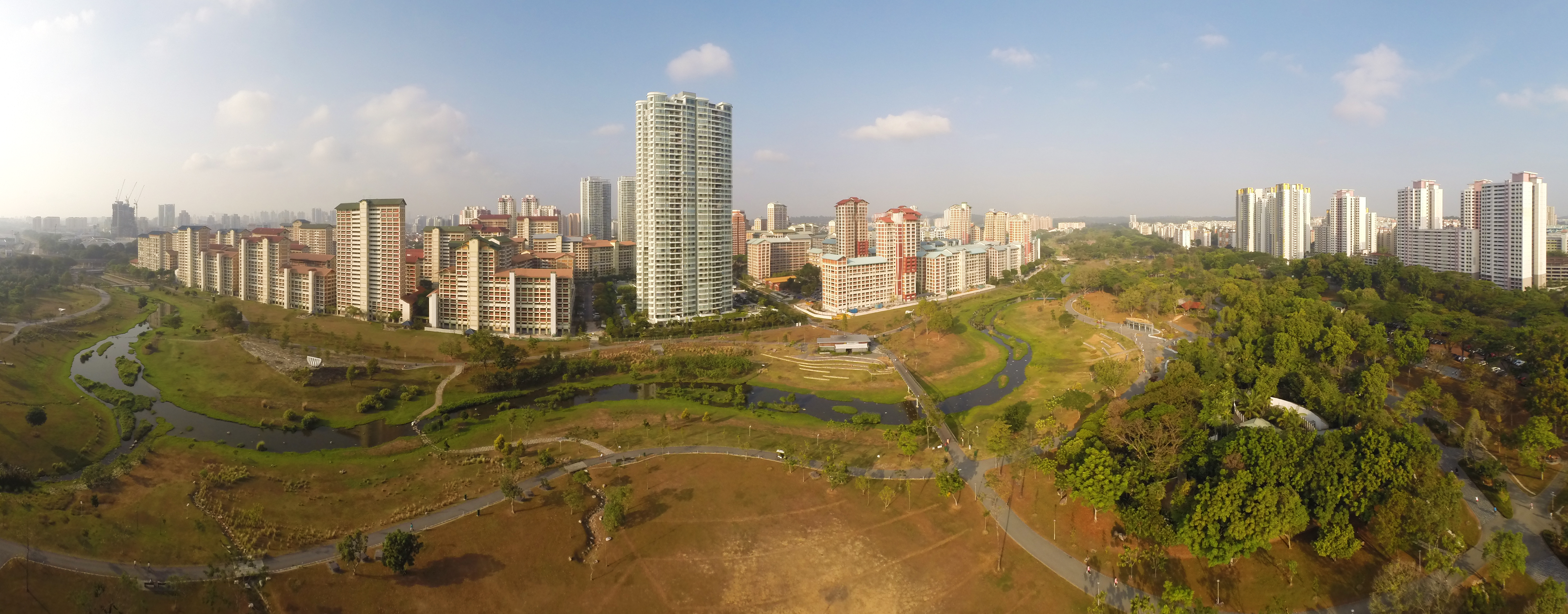 aerial panorama bishan ang mo kio park 2014 dji phantom 2 zenmuse h3-2d go pro black 3+